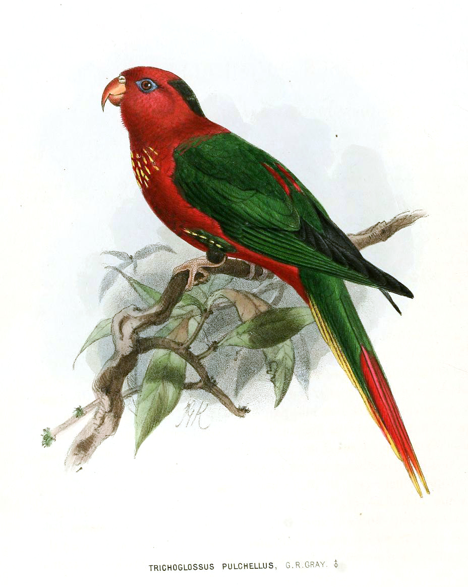 Trichoglossus pulchellus = Charmosyna pulchella[1]